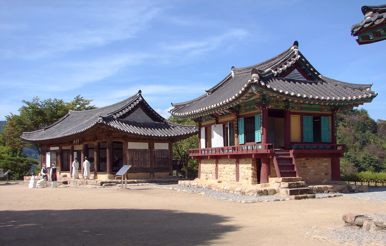 Eungcheong-gak (pavilion) is a two-story building originally stood beside Hanbyeong-nu (pavilion), a guest house of the chief governor of Cheongpung-hyeon. The back part of the first floor is about twice size of the front part, which has a wooden stair leading up to the second floor. The second story has a wood railing all the way around and the floor is of wood tiles. Cheongpung Cultural Properties Complex - located by the Chungjuho Lake. This complex is a reconstructtion of Cheongpung, a village that became submerged after the construction of Chungju Dam. It took three years to relocate the buildings and structures in the current site at a cost of of over 1.6 trillion won. Designated North Chungcheong Province Tangible Cultural Property #90.